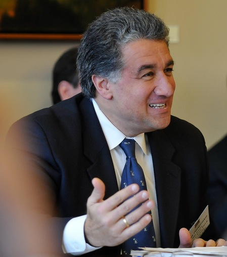 Massachusetts State Senator Steven Panagiotakos (left) in 2009. Photo courtesy of rappaportcenter, via Flickr. This file has been extracted from another file: Steven Panagiotakos 2007.jpg